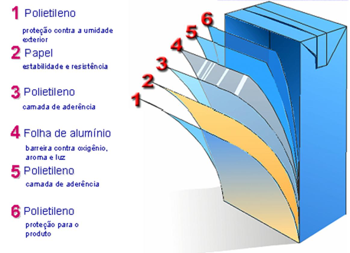 Layers of a beverage carton package